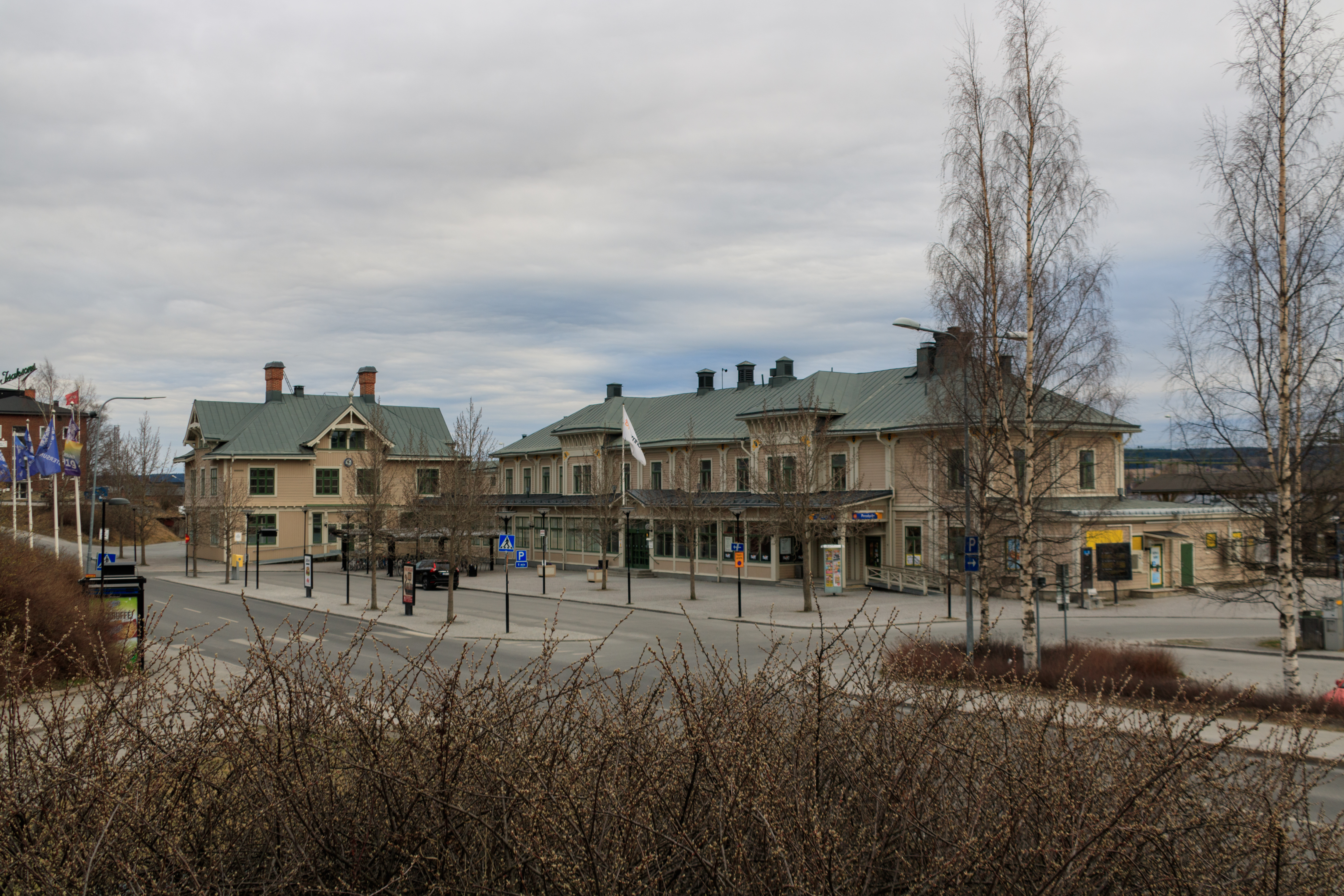 Östersund railway station